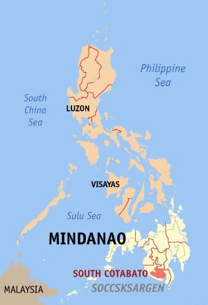 Map of the Philippines showing the location of South Cotabato